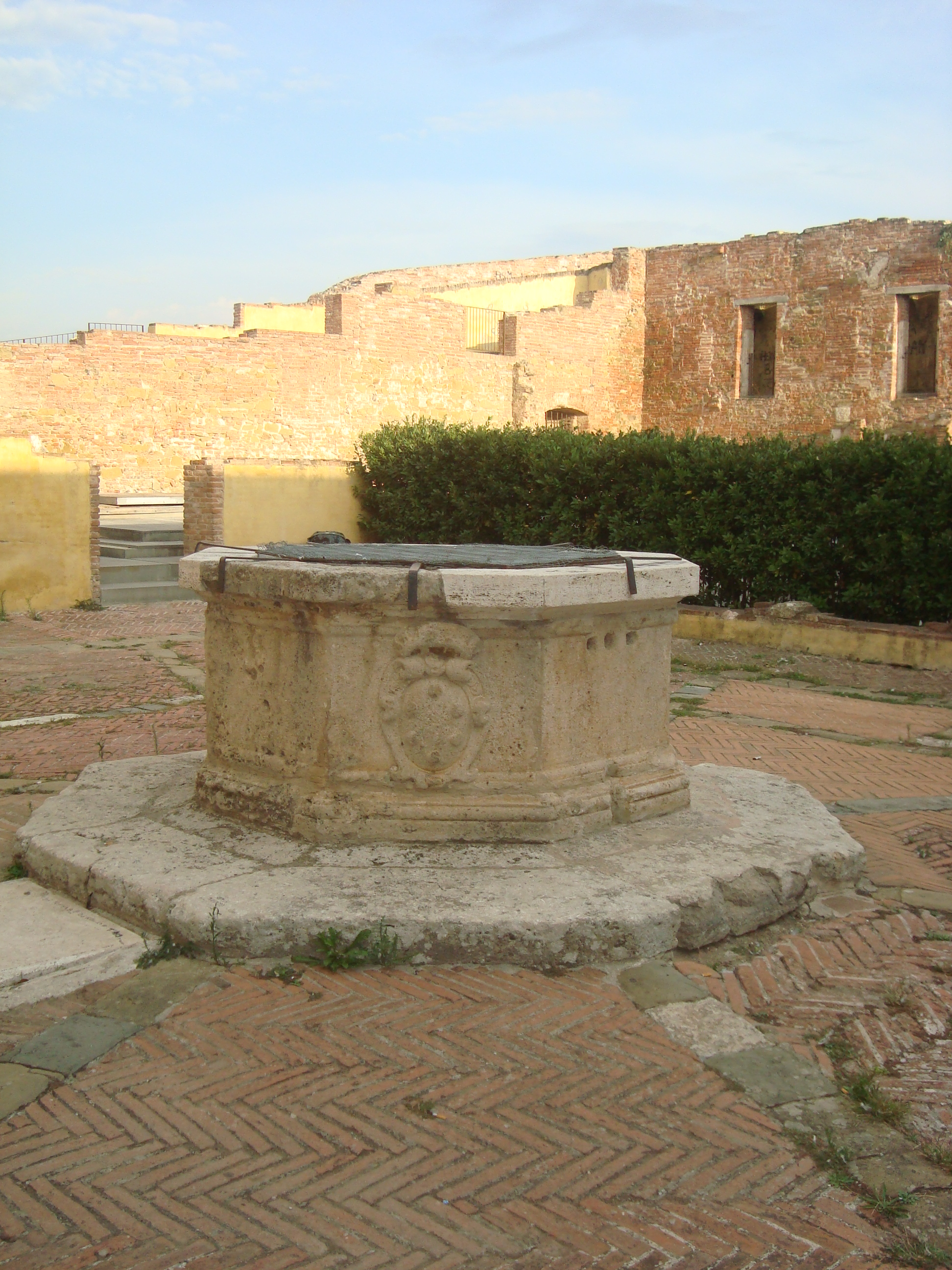 Pozzo della Fortezza